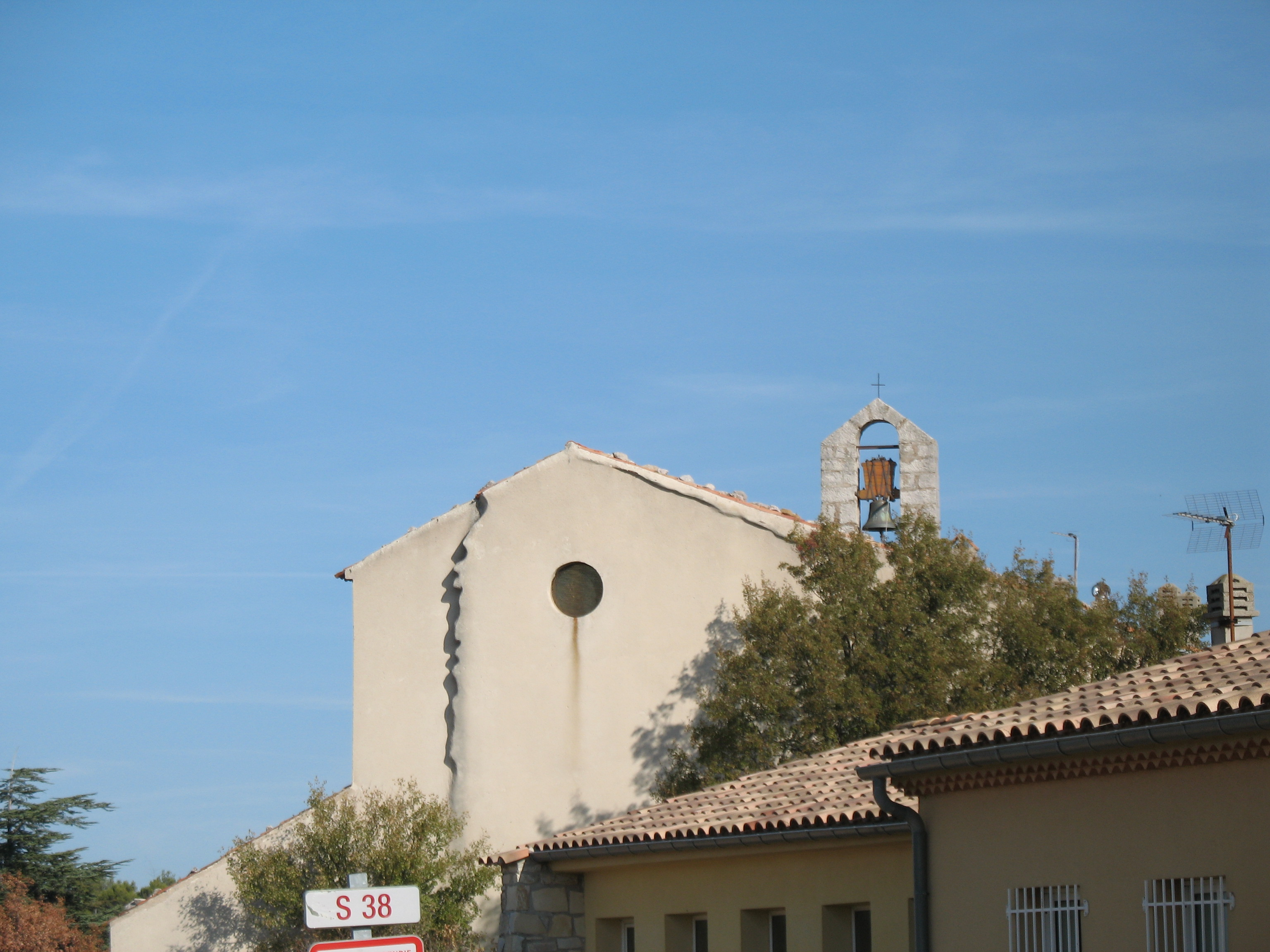 Church of Plan-d'Aups-Sainte-Baume (Plan-d'Aups-Sainte-Baume, Var, France)